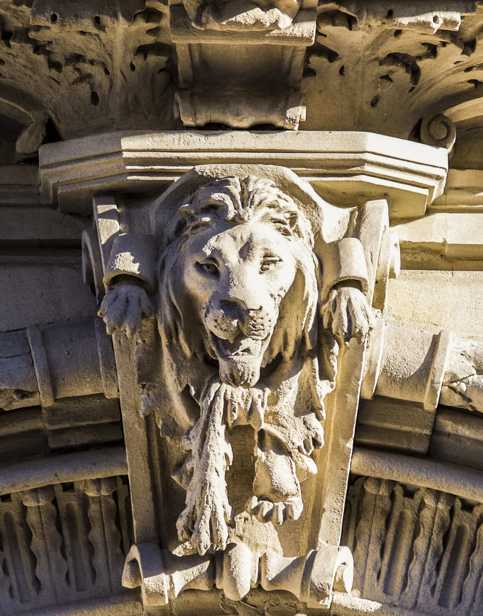 Mayoralty of Baku facade detail